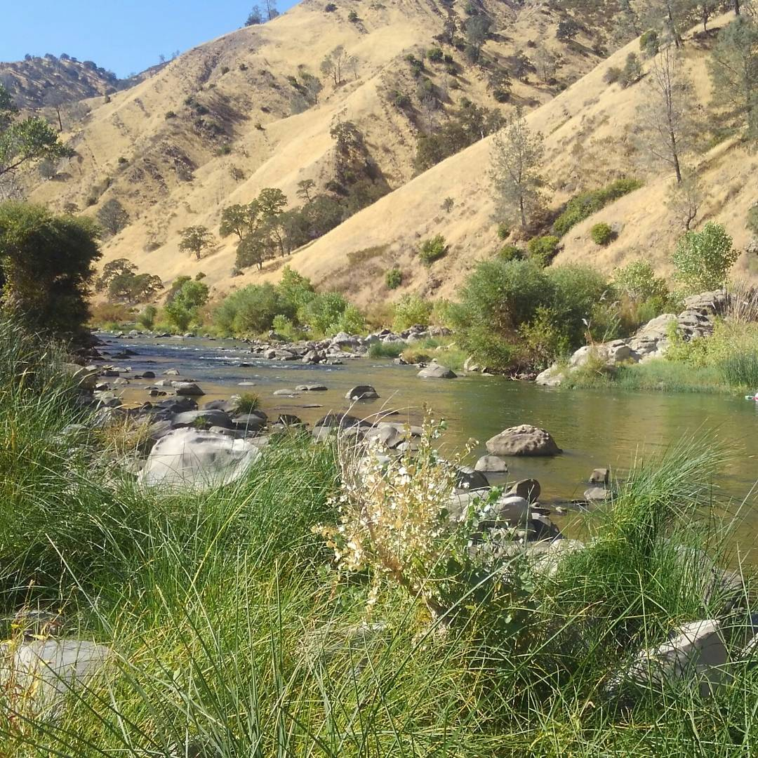 Cache Creek in Cache Creek Canyon above the town of Rumsey